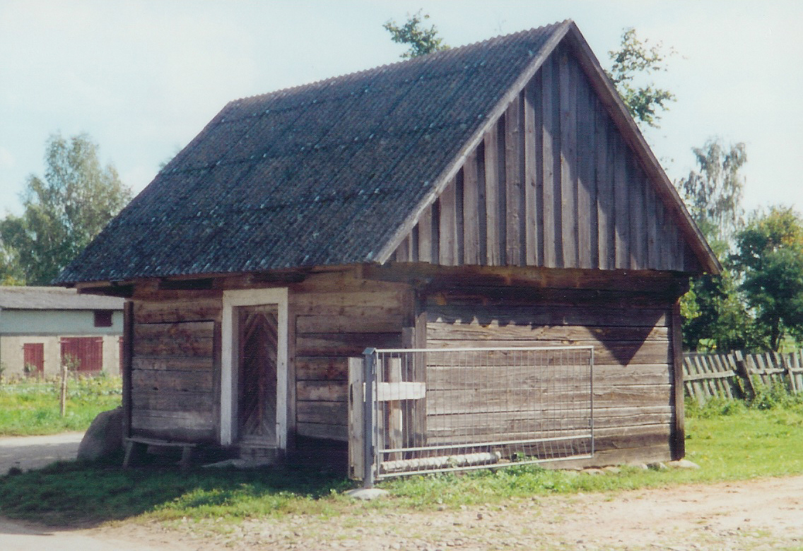 The peasant granary in Nowe Dolistowo